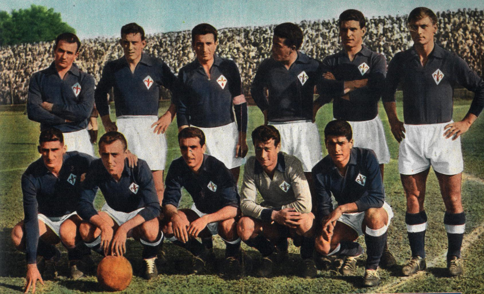 AC Fiorentina in 1955-56 Serie A torunament. The team won their first Scudetto in that season.